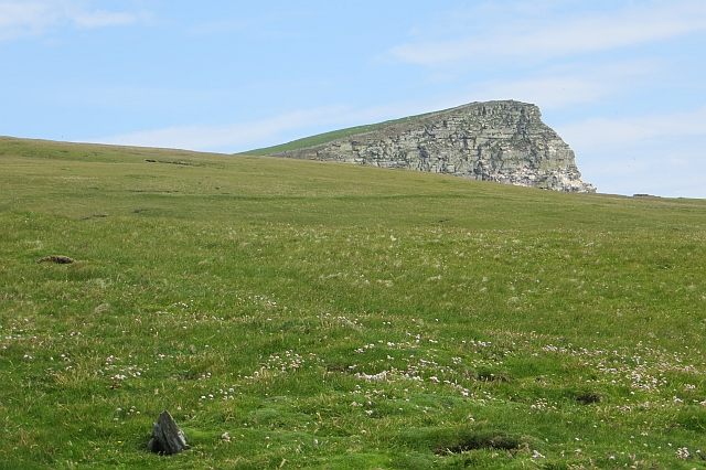 View towards Noss Head